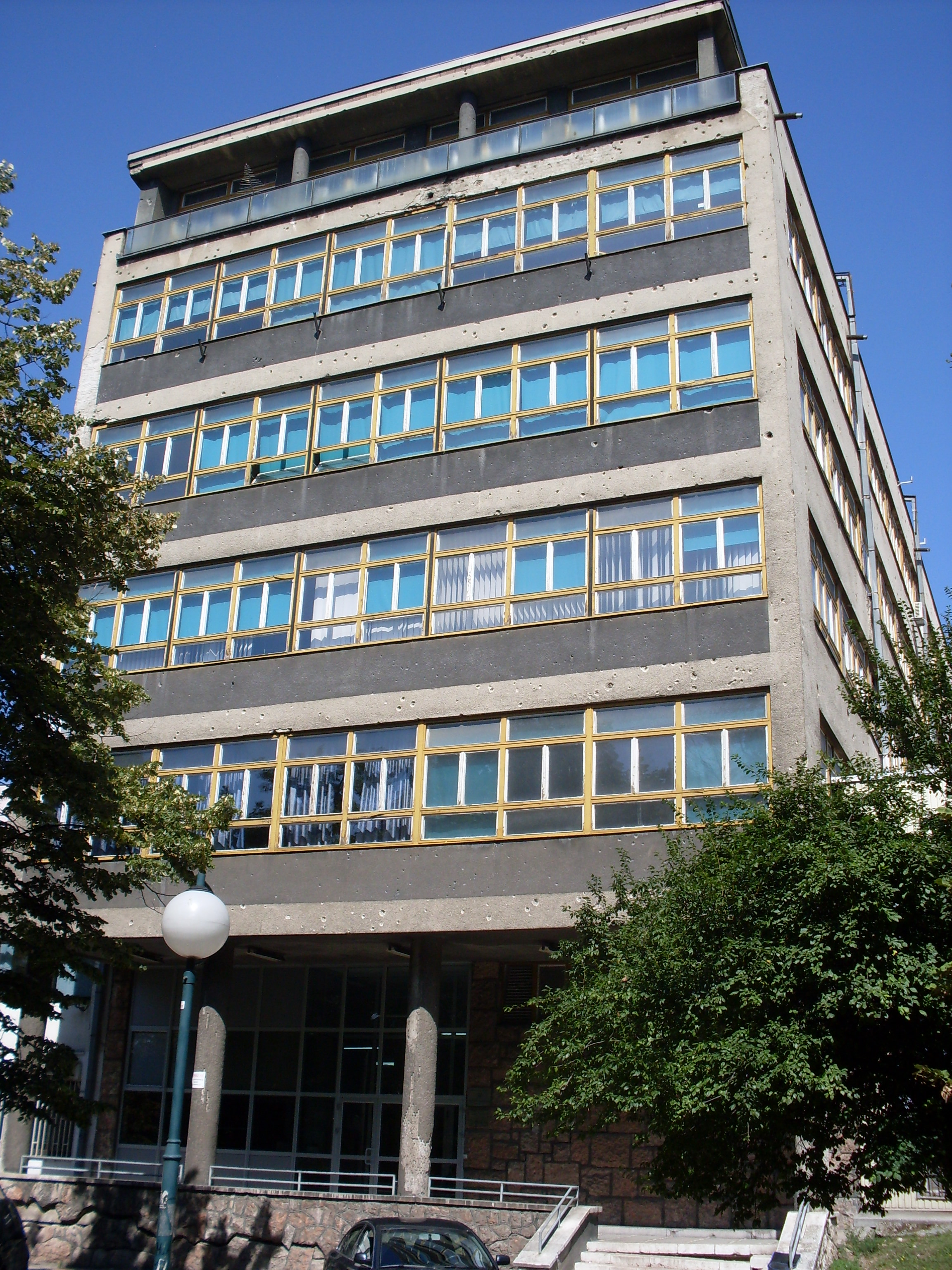 Faculty of Mechanical Engineering, Sarajevo